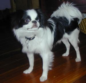 I am the photographer, this is my dog Neru.